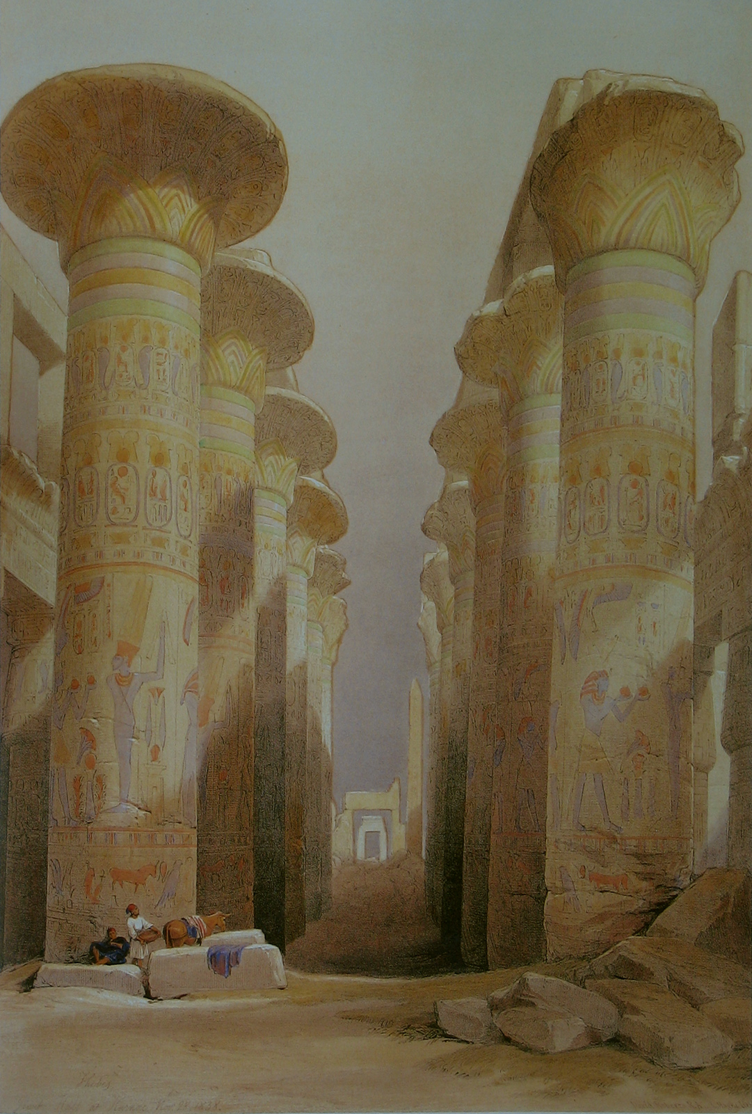 Central Avenue of the Hall of Columns at Karnak